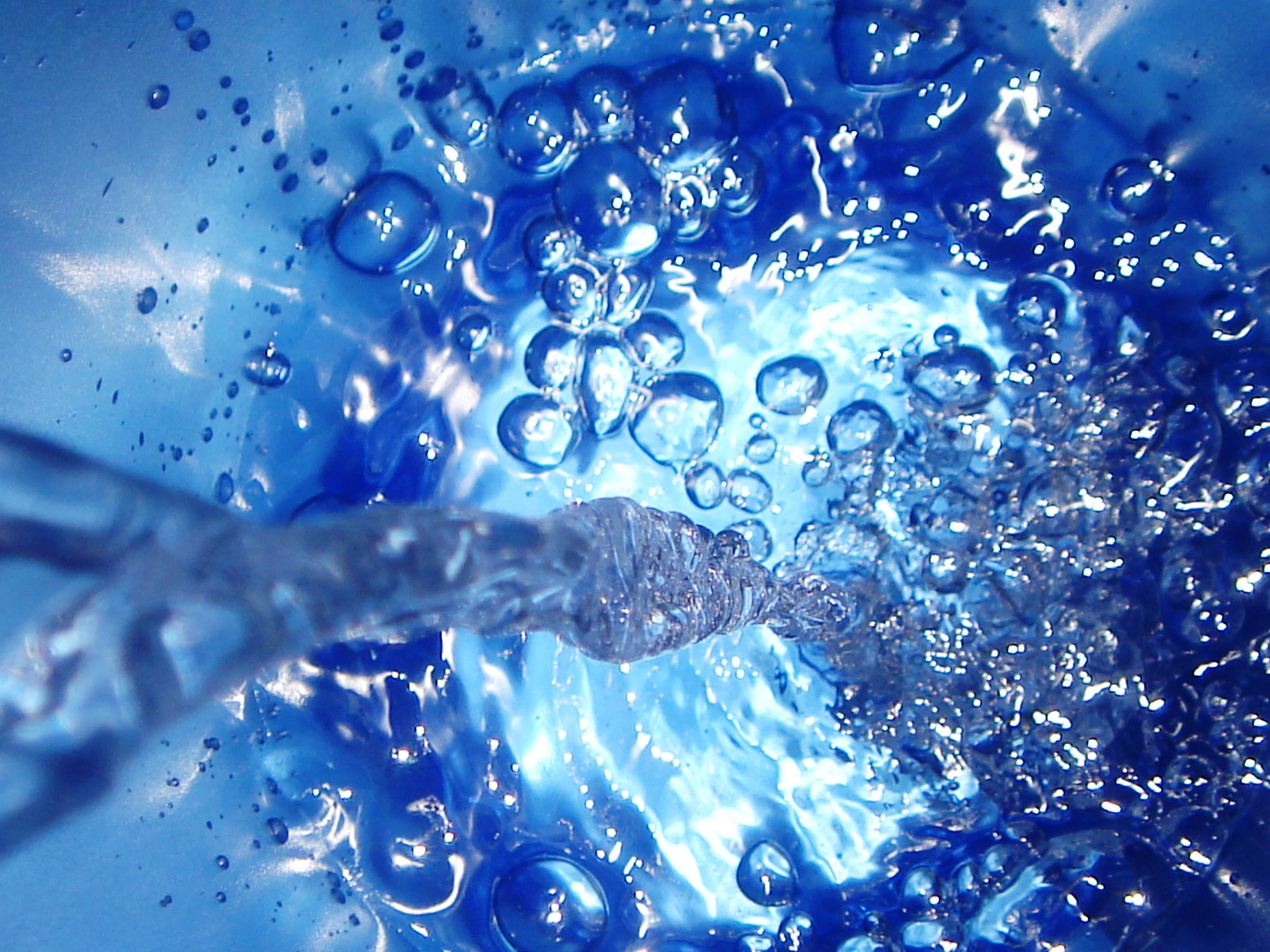 Impact of water in a water-surface